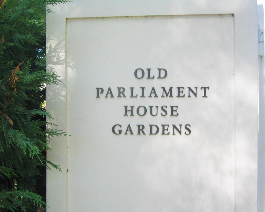 Entrance to the Old Parliament House Gardens.